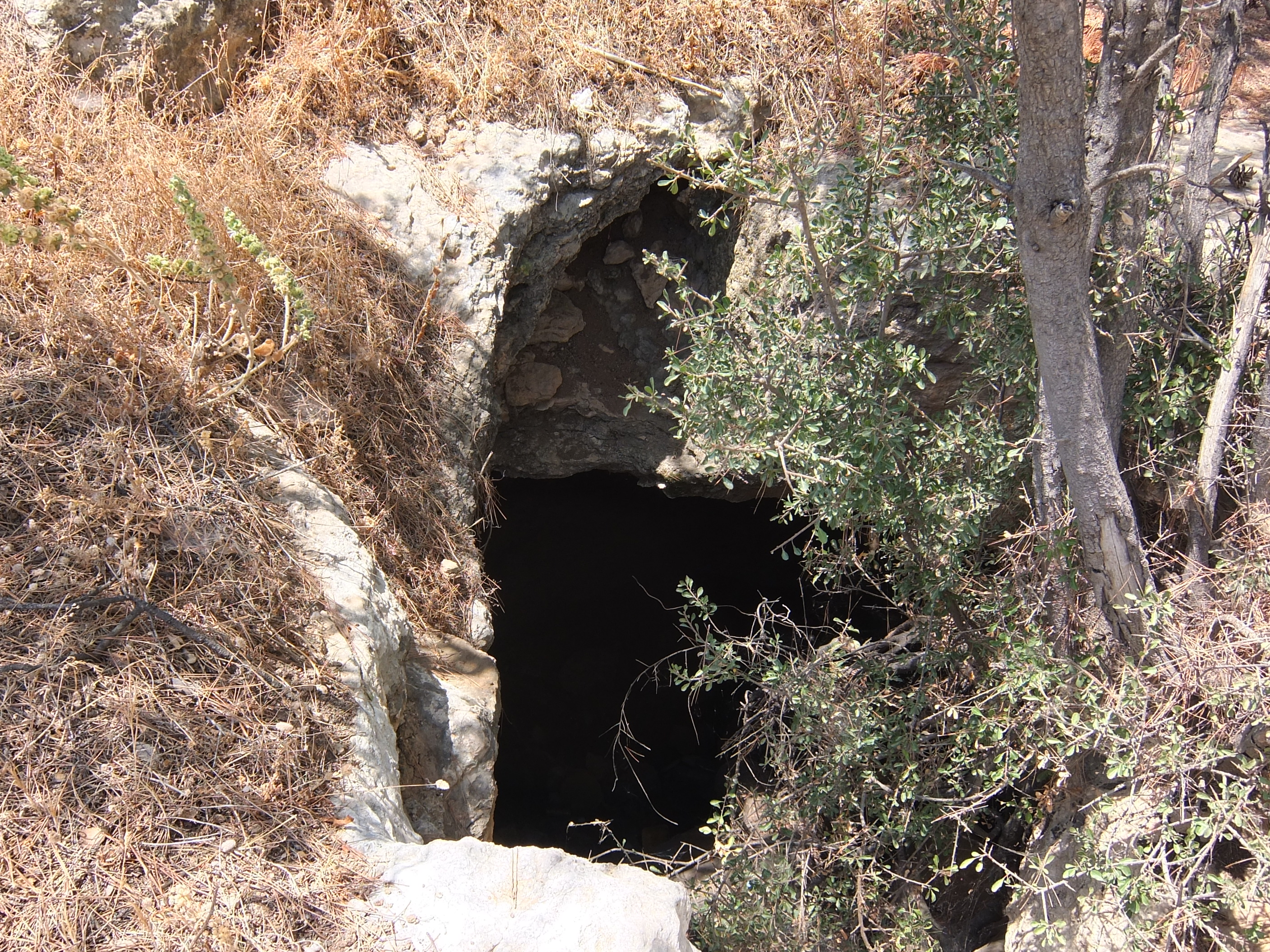 Cave in the vicinity of Jarash, southwest of Jerusalem